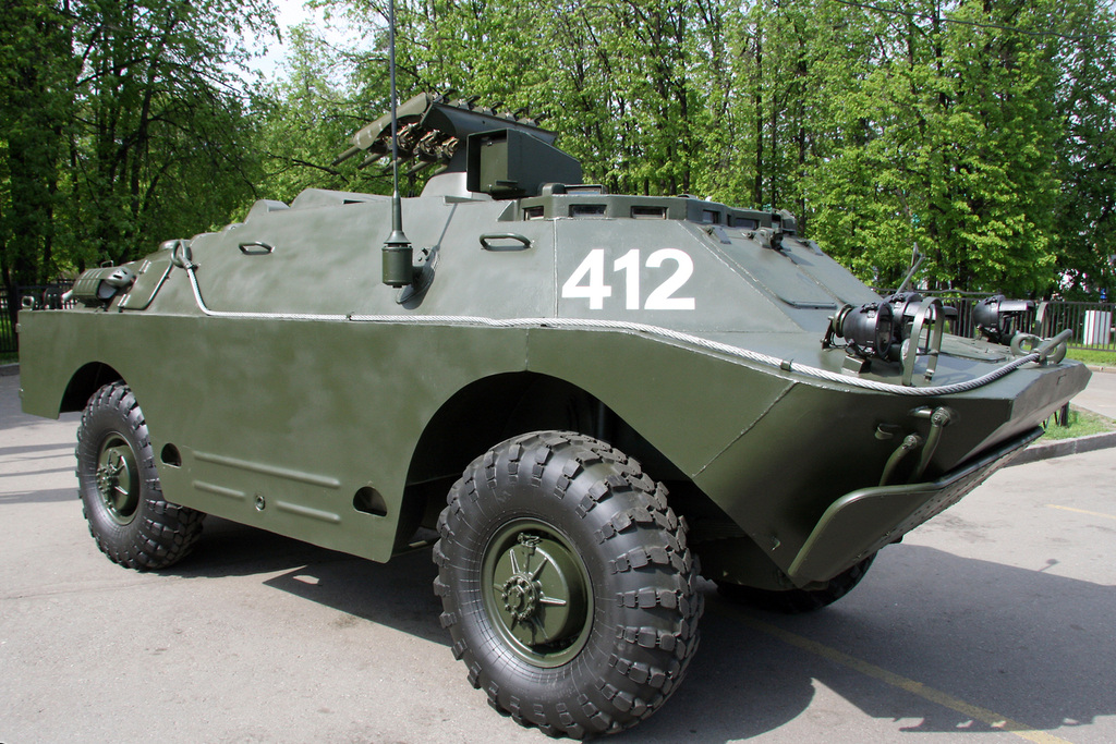 9P148 launching vehicle on BRDM-2 base for 9M113 Konkurs ATGM. Military exhibition in Luzhniki sports area.